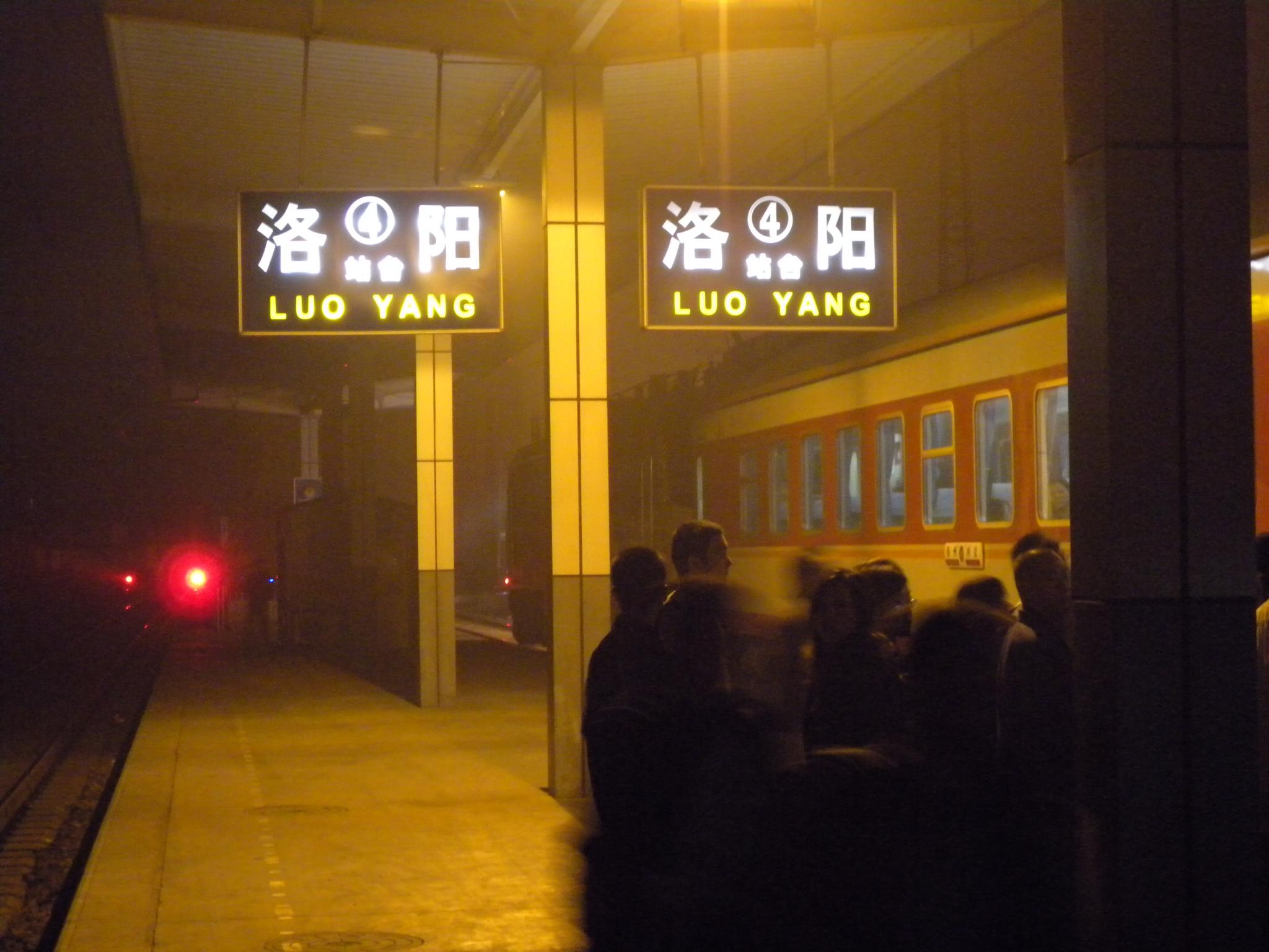 China Luo Yang train station 洛阳站/洛陽站 Any use of this photo should credit Ryan McFarland and direct a link to Thank you. Want to know more of the story of this picture from the second day in Xi'an? Go to my site and do a search for the image title.